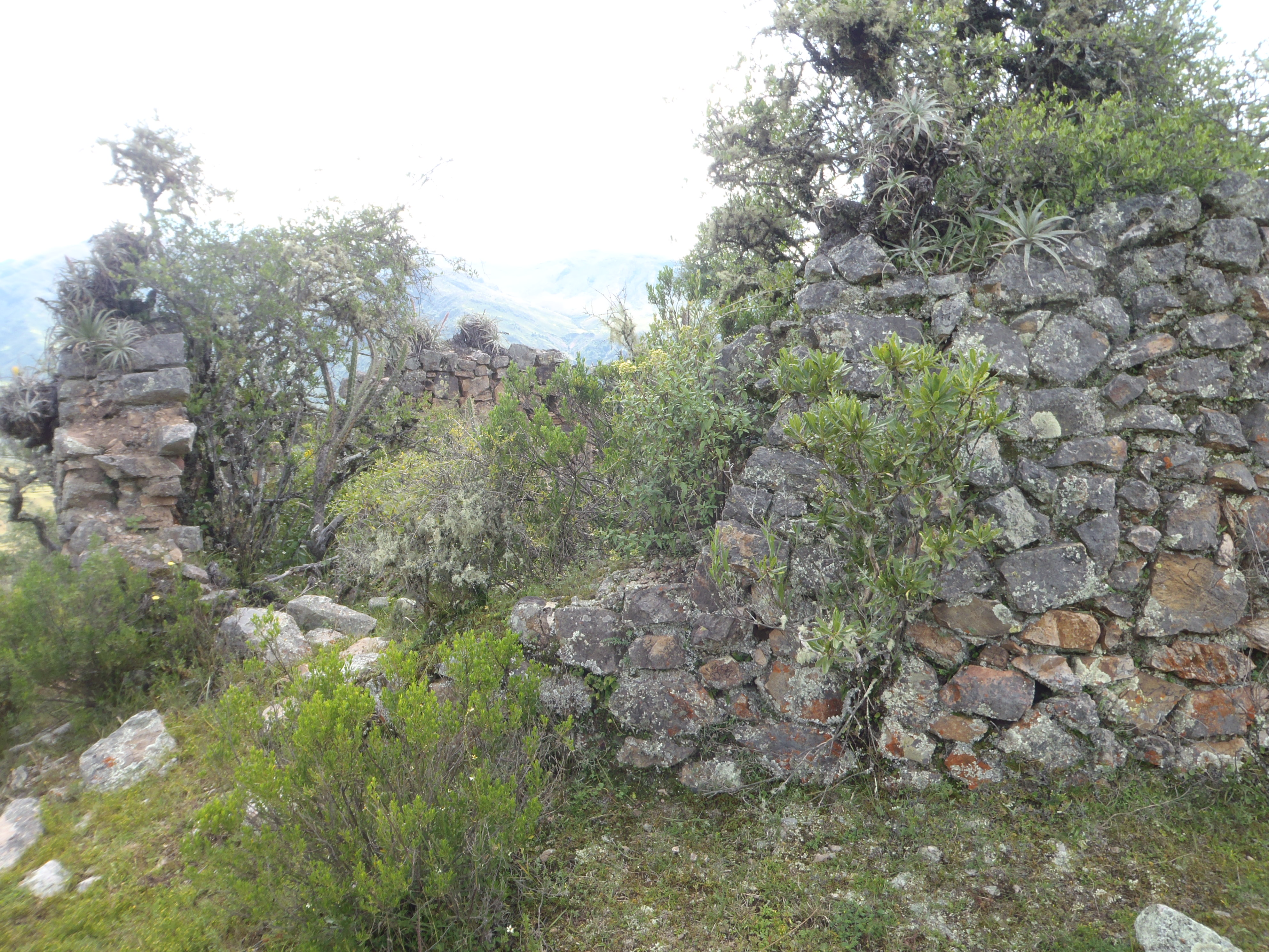 Yanaca is a pre-inca ruins group situated in Peru, Apurimac region, Yanaca district. Chacha-Callas is one of these ancient village, situated near Parancay village, next to Yanaca village. This picture represents houses of Chacha-Callas.